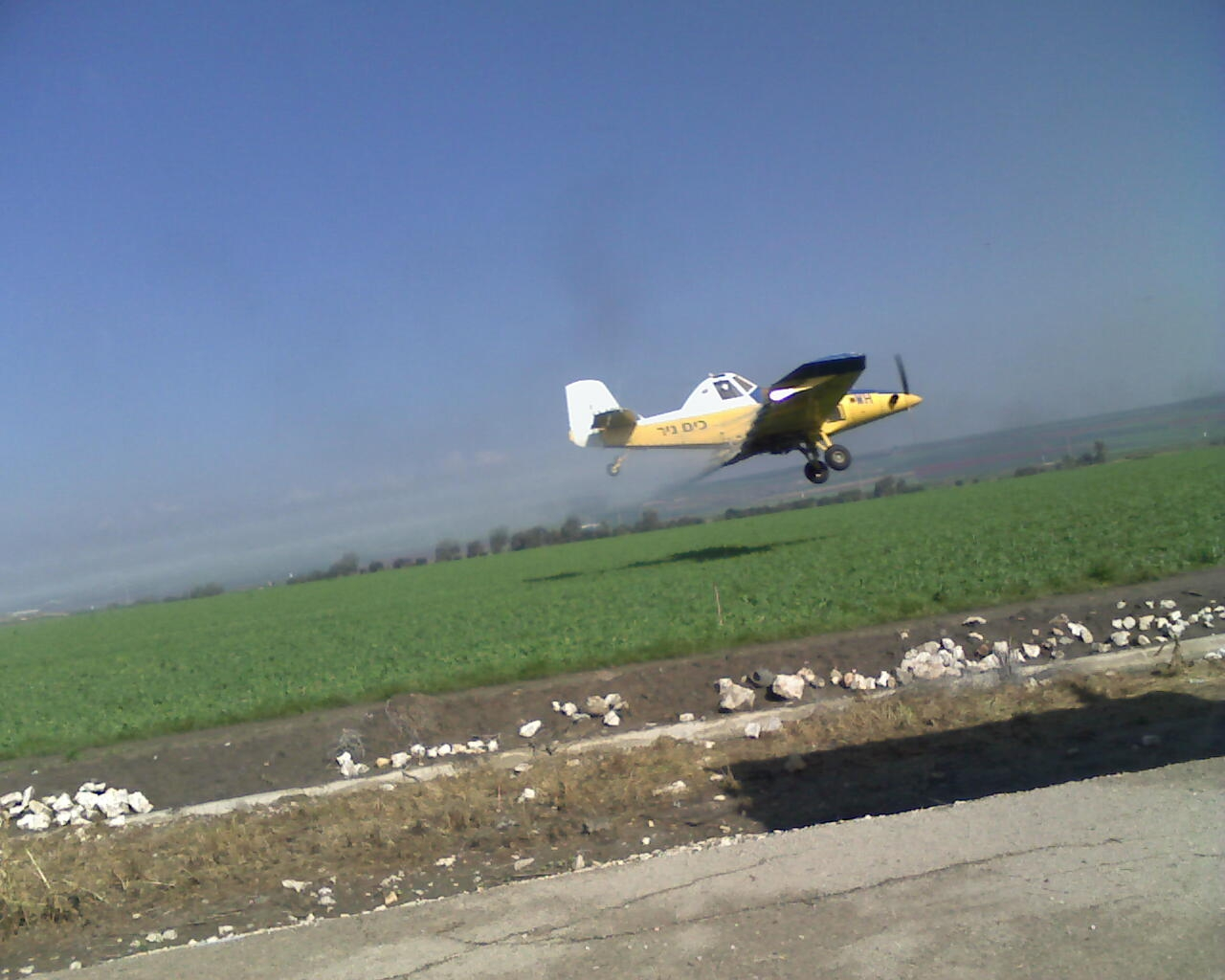 Spraying plane near Nir David, Israel